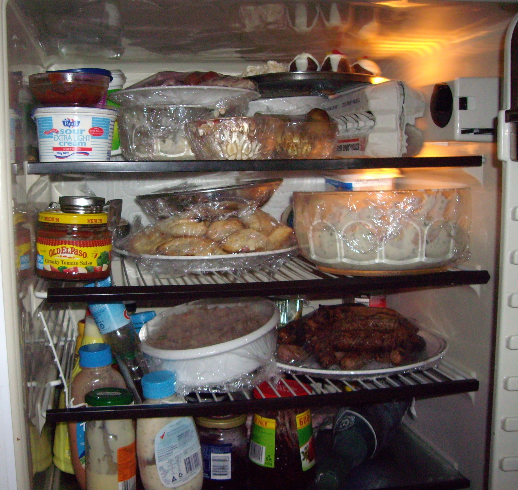 Self taken pic.